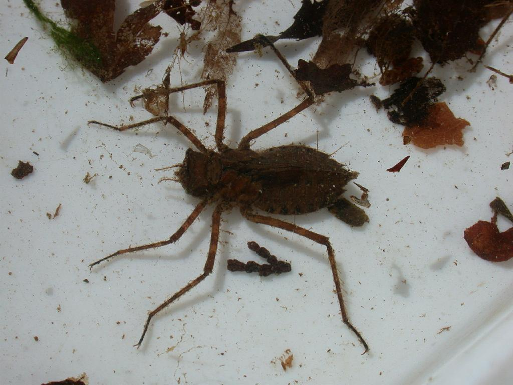 Macromia amphigena amphigena(Corduliidae):larva Japanese name:Koyamatonbo_no_Yago Date;2007,03;Tanabe city, Wakayama prefecture, Japan Author;Keisotyo